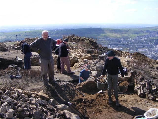 The University of Salford has established a new Centre for Applied Archaeology which will investigate archaeological sites, historic buildings and industrial heritage across the North West and give local communities opportunities to take part in actual excavations. The new Centre will be based at the University’s CUBE Gallery on Portland Street, Manchester, and already has a series of projects to work on including excavations at the 12th century Buckton Castle in Stalybridge, Tameside, a national series of training days on industrial buildings run with the Council for British Archaeology and Association for Industrial archaeology, and a book on industrial Glasgow showing-casing the archaeology of the M74.